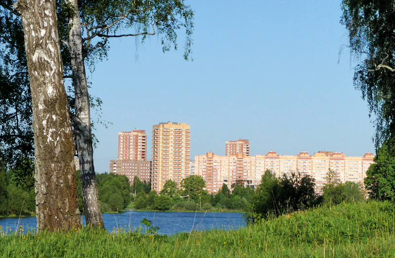 View Fryazino from the estate Grebnevo.